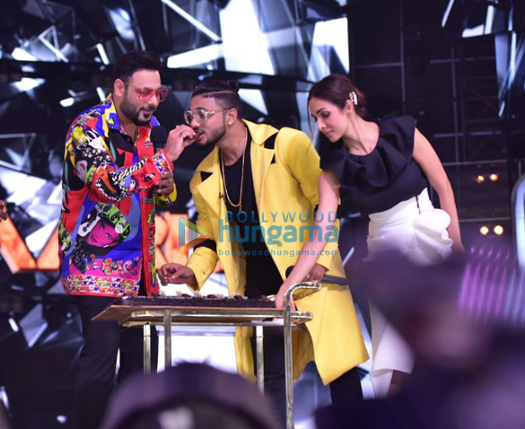 Malaika Arora and Badshah on the set of Dance India Dance.